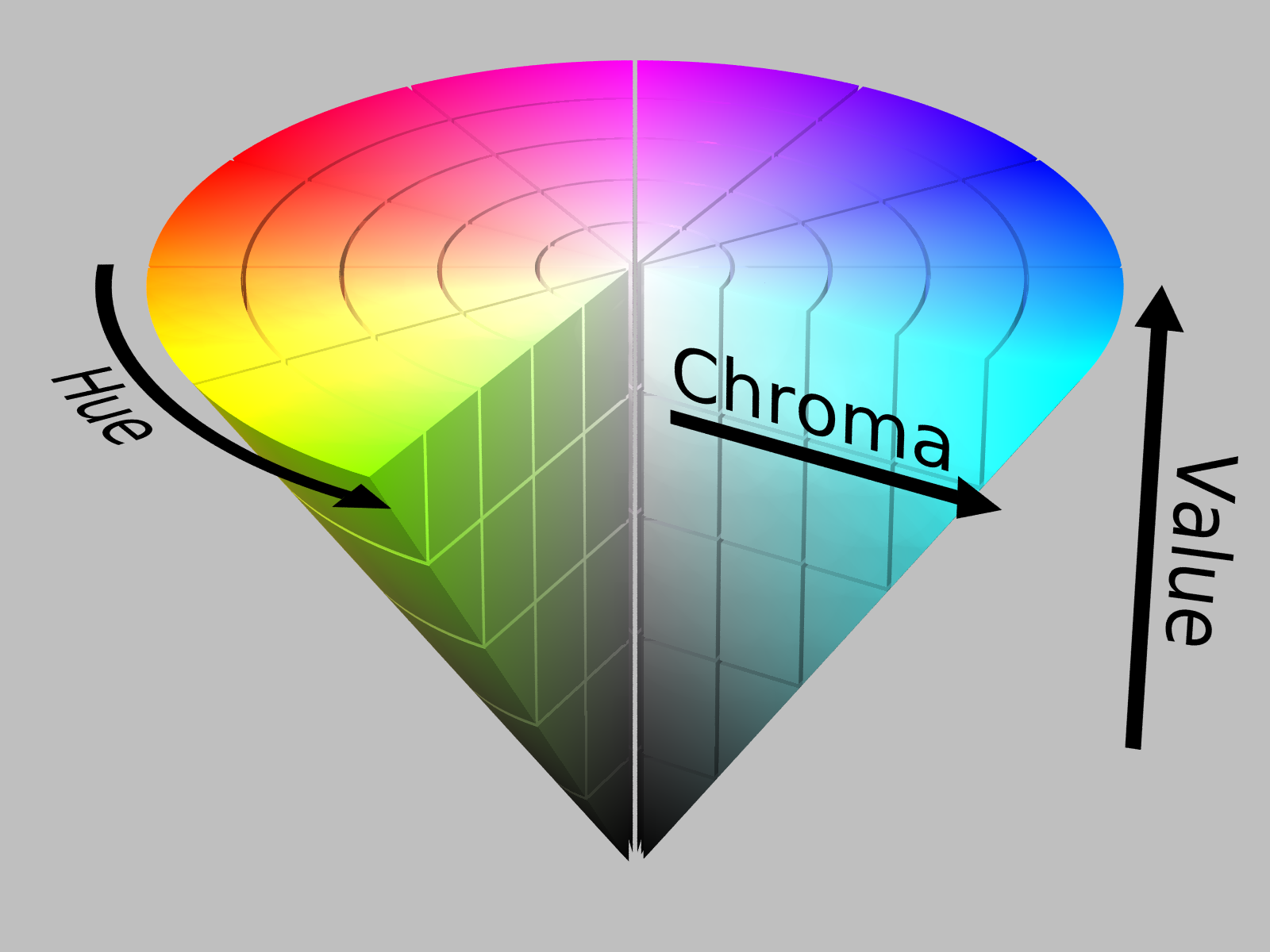 HSL and HSV are two cylindrical representations of the RGB gamut, created in the mid-1970s and used mostly in image editing and computer graphics. When HSL/HSV hue and HSL lightness/HSV value are plotted against chroma C – where C = max(R, G, B) − min(R, G, B) – the resulting color solid is a bicone or cone. For details, see the article HSL and HSV.